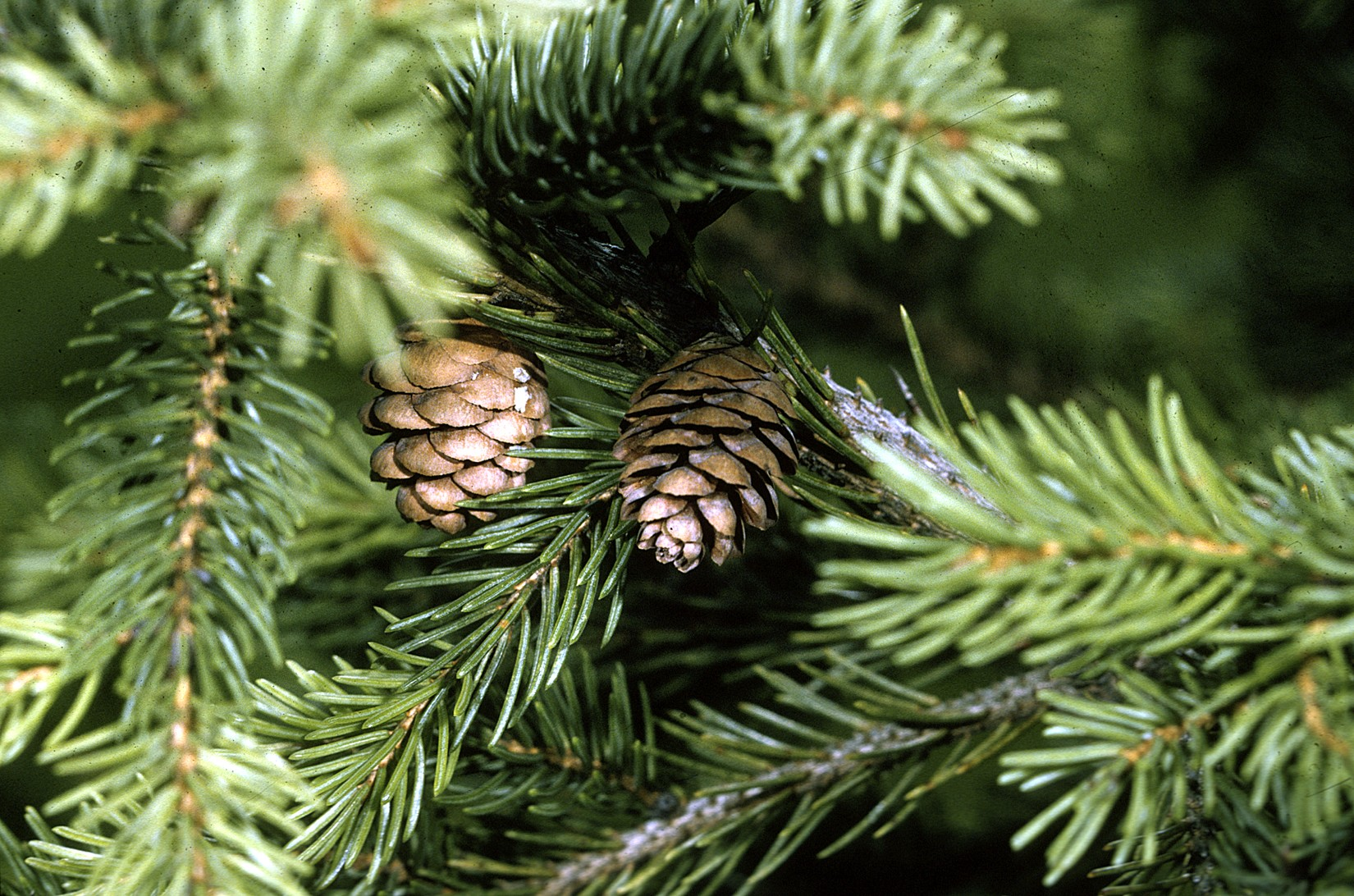 Red Spruce. Pine cone.